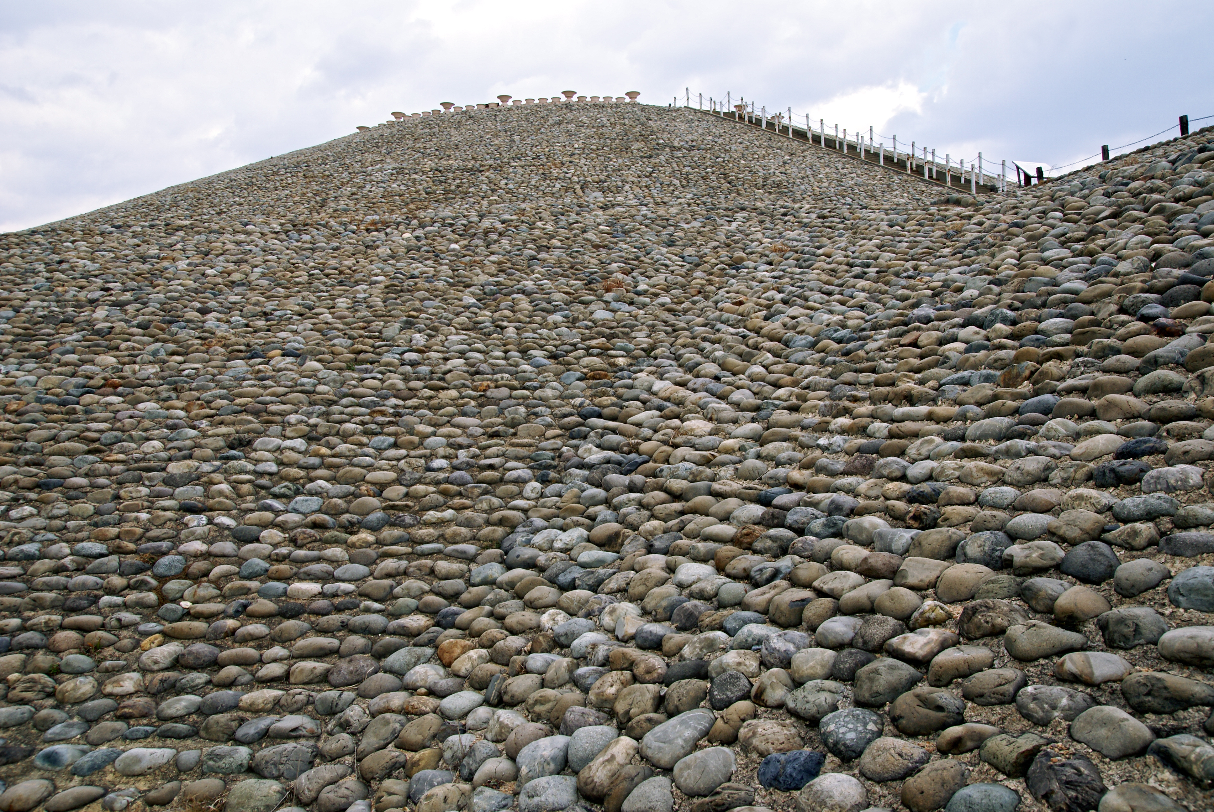 Goshikizuka kofun in Kobe, Hyogo prefecture, Japan